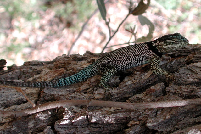 from the "sky island" mountains of Arizona and New Mexico.